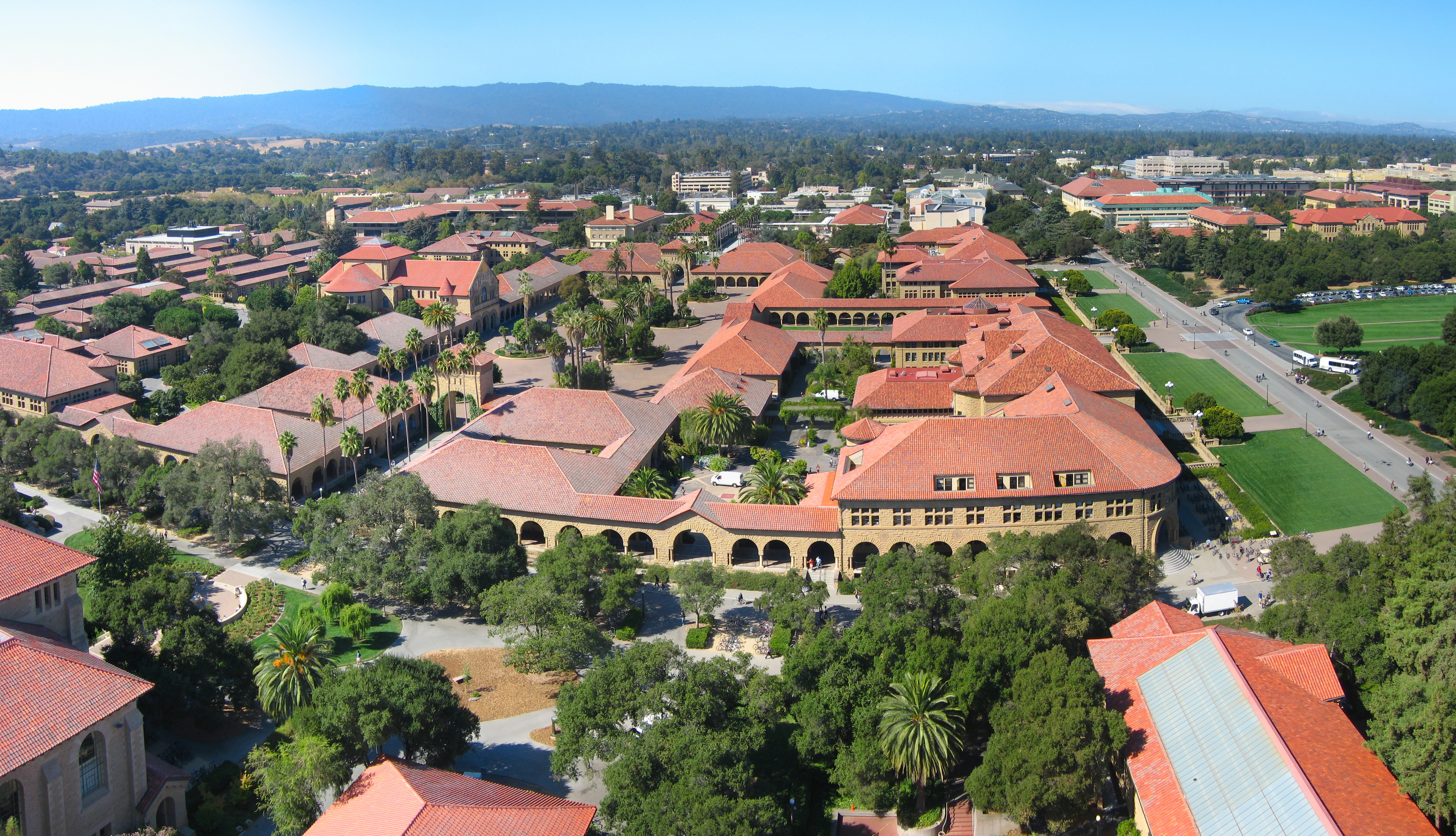 Stanford University campus from above.